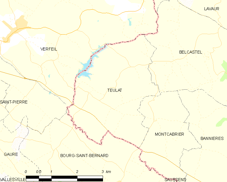 Map of French municipality Teulat